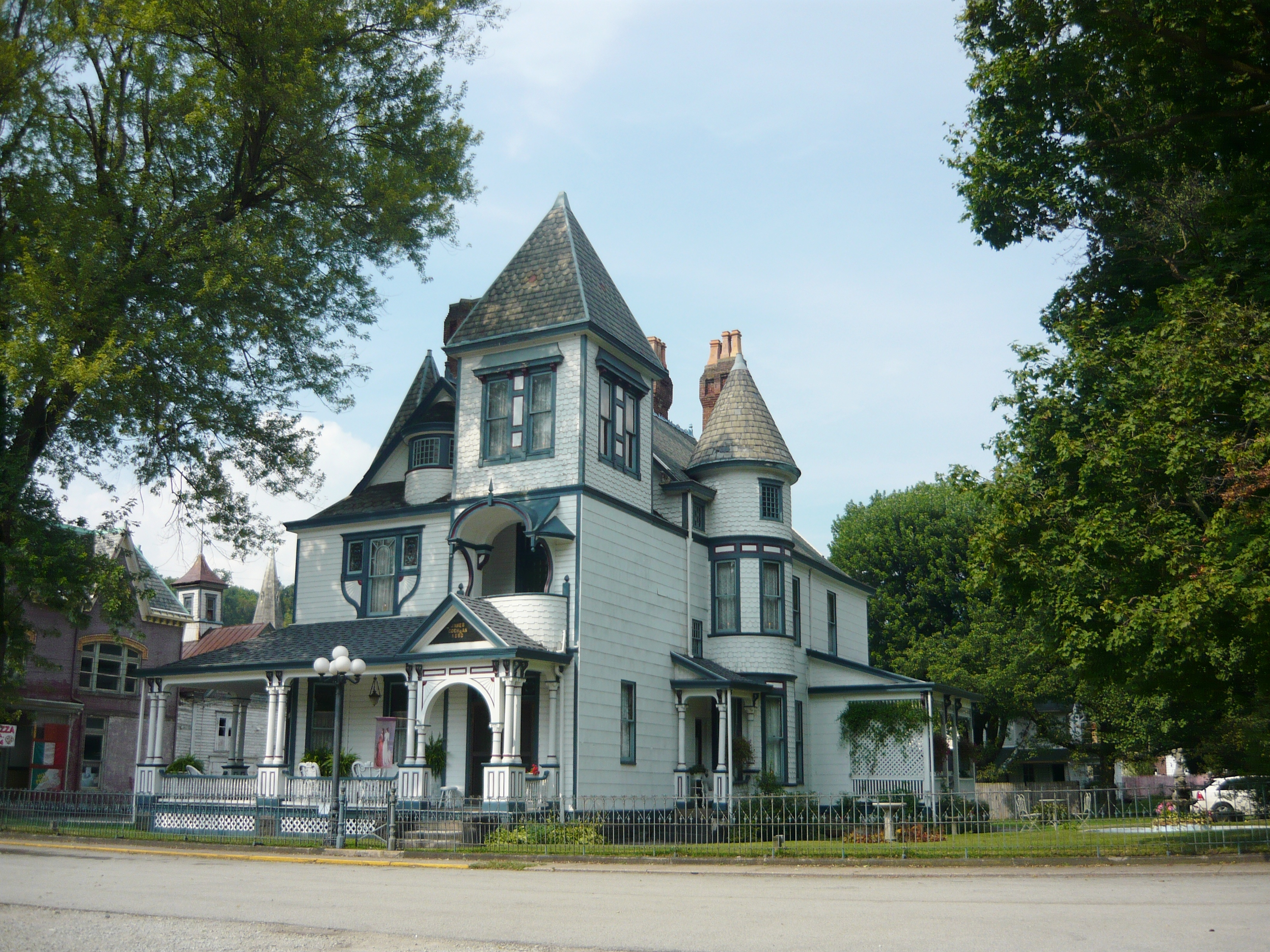 James Cochran House, built 1890, on Railroad Street at corner of Main Street, Dawson, Fayette County, Pennsylvania.